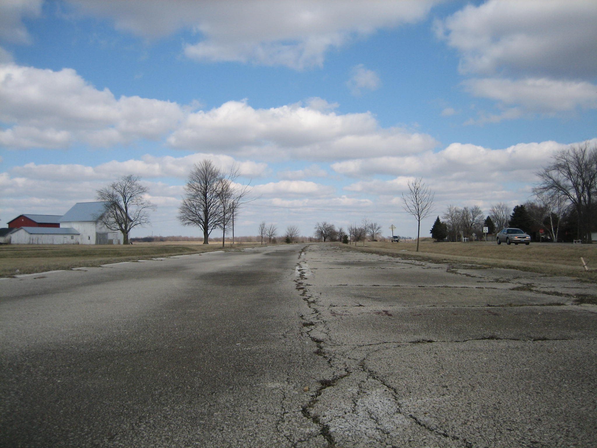 Old U.S. Route 66, Towanda, Illinois.